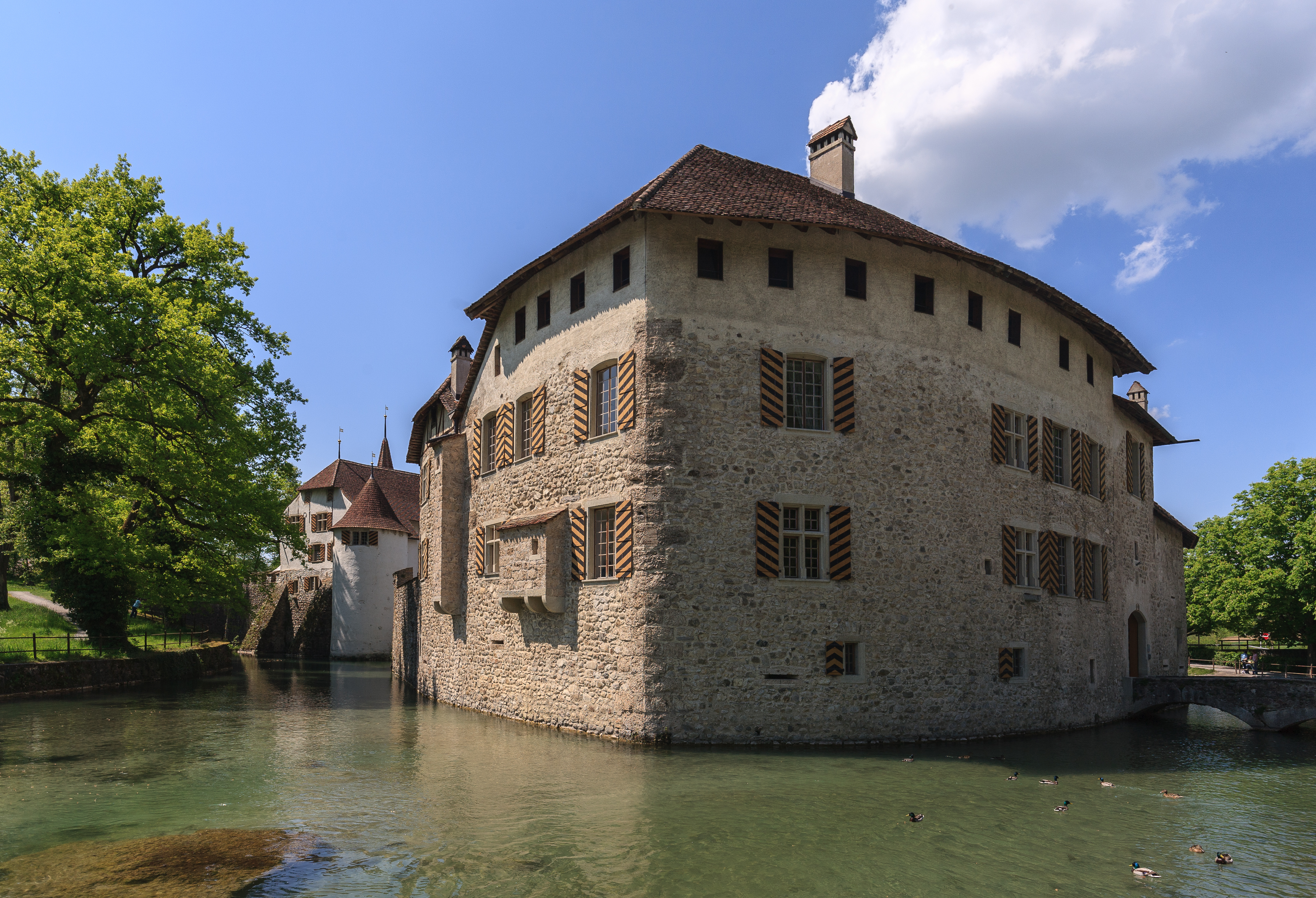 Hallwyl Castle, Canton of Aargau, Switzerland